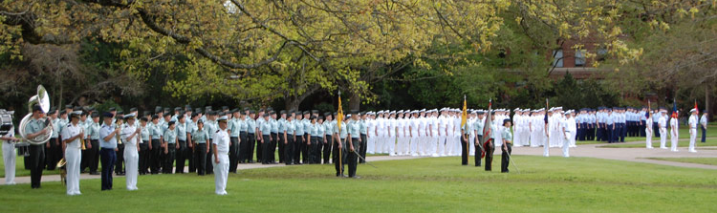 Joint Service Review 2015. From left to right; Army ROTC, Naval ROTC, Air Force ROTC.